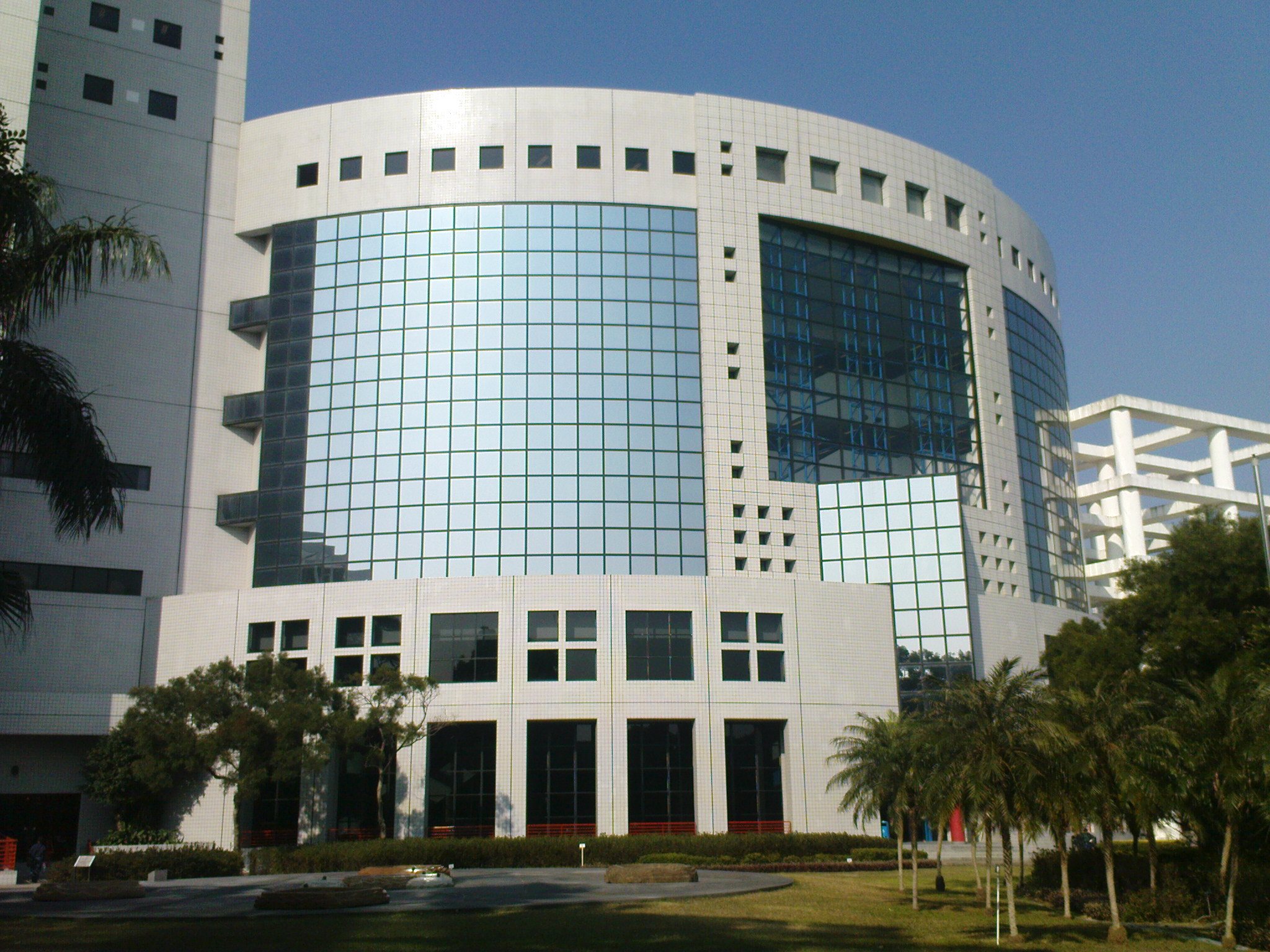 author Dinuka Soysa, taken from the HKUST LG7 lawn.